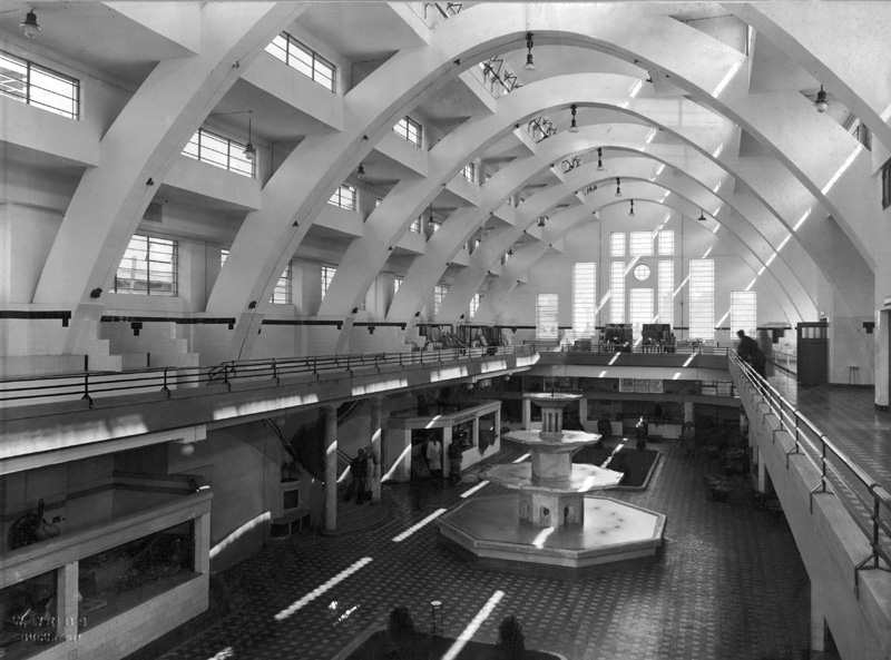 The Central Hall of Ploieşti, Romania. Architect: Toma T. Socolescu. This market place is located in the very heart of the city, strada Emile Zola, Ploieşti, Judeţul Prahova, Romania. It is classified historical monument. We are the only heirs and descendants of Toma T. Socolescu (died in 1960 in Bucharest) and therefore owner of all his intellectual rights.